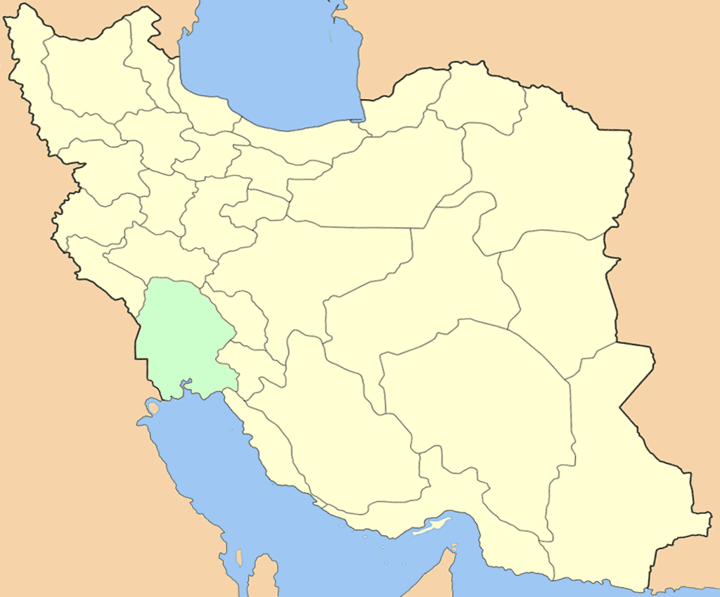 Blank locator map Khuzestan Province of western Iran. (province of Khuzestan)